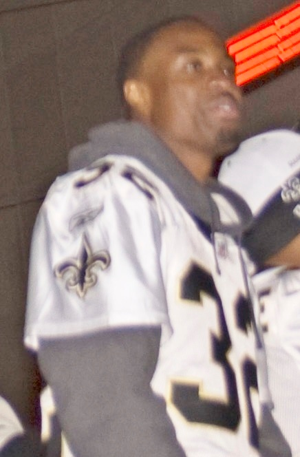 Jabari Greer during the New Orleans Saints' victory parade following the team victory at Super Bowl XLIV. Cropped from original.